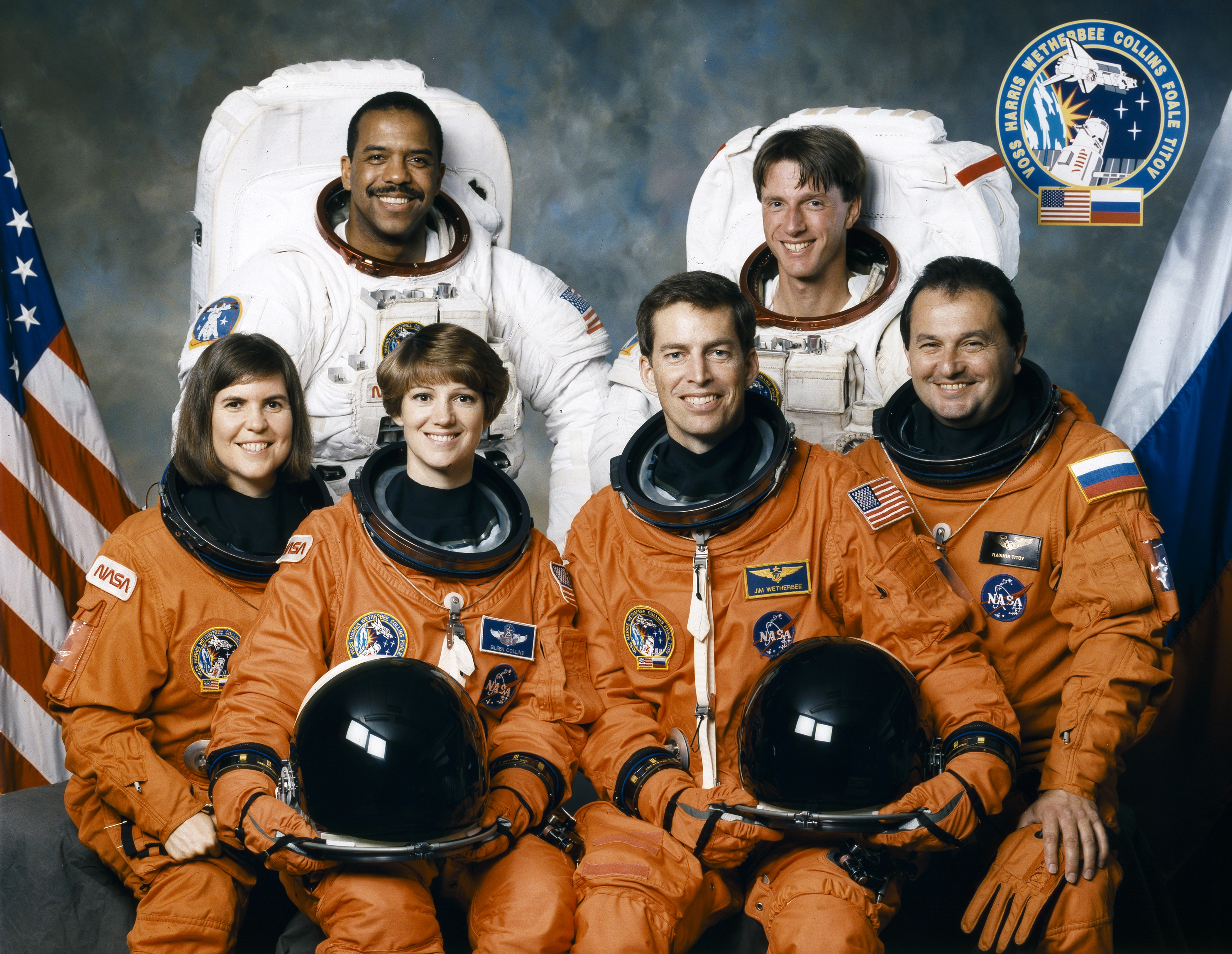 STS-63 Crew Crew members assigned to the STS-63 mission included (front left to right) Janice E. Voss, mission specialist; Eileen M. Collins, pilot; (the first woman to pilot a Space Shuttle), James D. Wetherbee, commander; and Vladmir G. Titov (Cosmonaut). Standing in the rear are mission specialists Bernard A. Harris (the first Afro-American to walk in space), and C. Michael Foale. Launched aboard the Space Shuttle Discovery on February 3, 1995 at 12:22:04 am (EST), the primary payload for the mission was the SPACEHAB-3. STS-63 marked the first approach and fly around by the Shuttle with the Russian space station Mir.